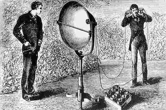 Illustration of the photophone's receiver, originally from: SILVANUS P. THOMPSON. "Notes on the Construction of the Photophone." Phys. Soc.Proc., Vol. 4, 1881, pps.184-190. Also in Phil. Mag., Vol. 11, 1881, pp. 286-291. Abstracted in Chem. News, Vol. 43, 1881, p. 43; Eng. L., Vol. 31, 1881, p. 96.